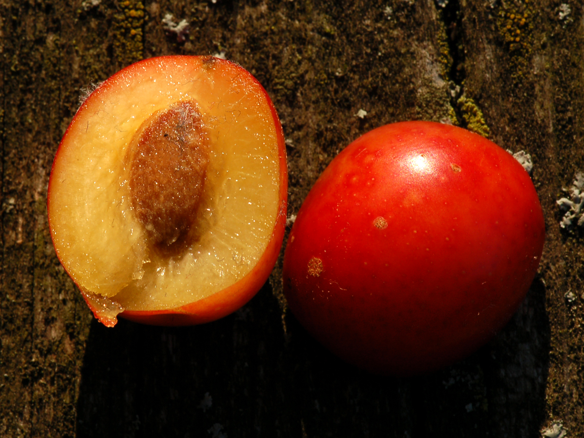 Cherry plum cut in half